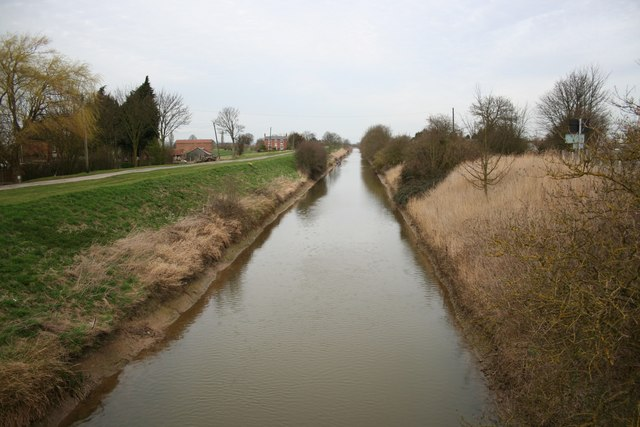 Hobhole Drain Looking north from the railway bridge at Leake Commonside